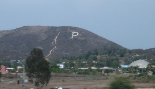 "P" above Palomar College